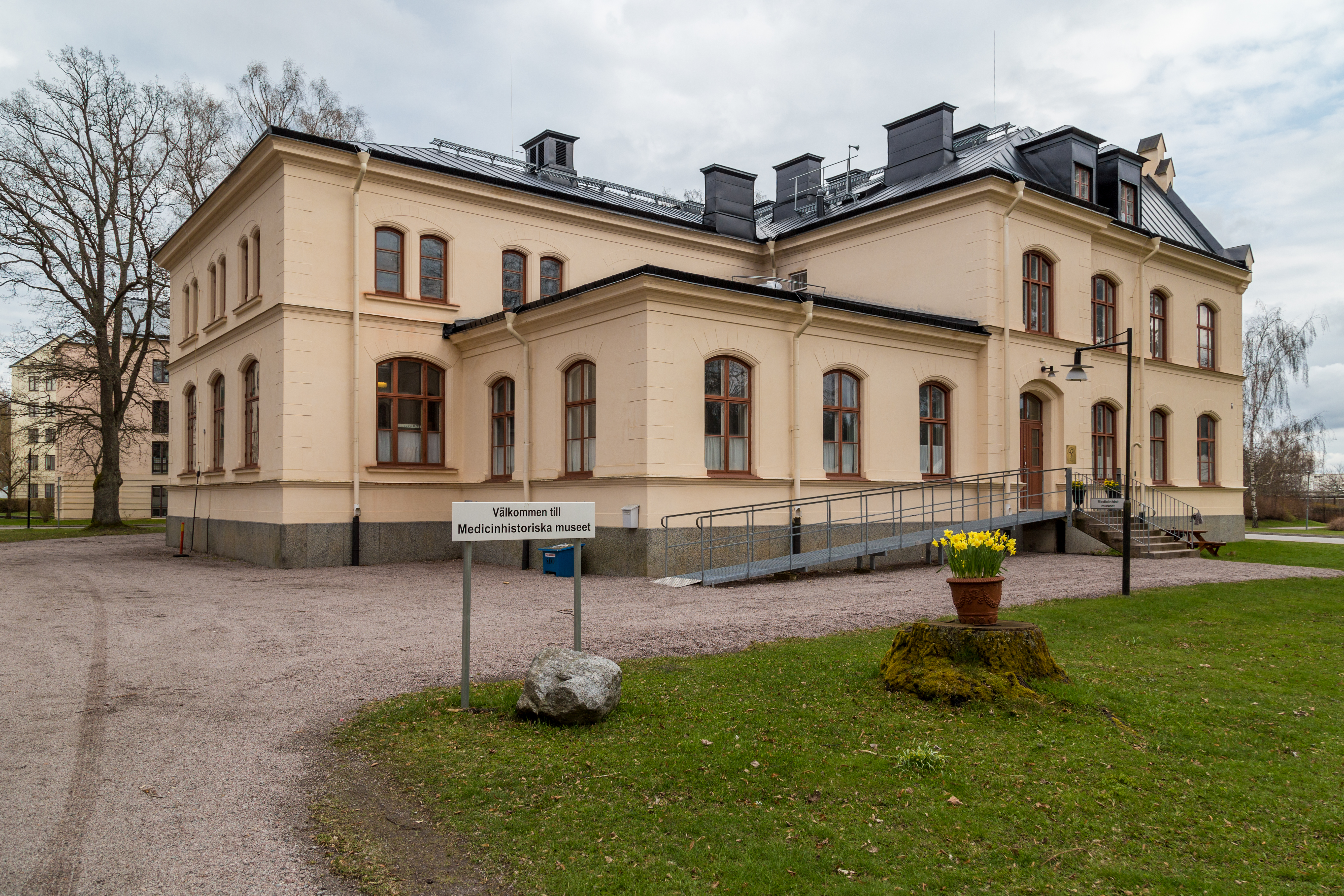 Museum of medicine history at former mental hospital area Ulleråker, Uppsala, Sweden